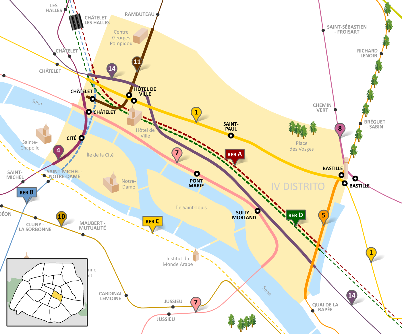 Paris 4th district (France), metro (subway) lines and RER. In spanish